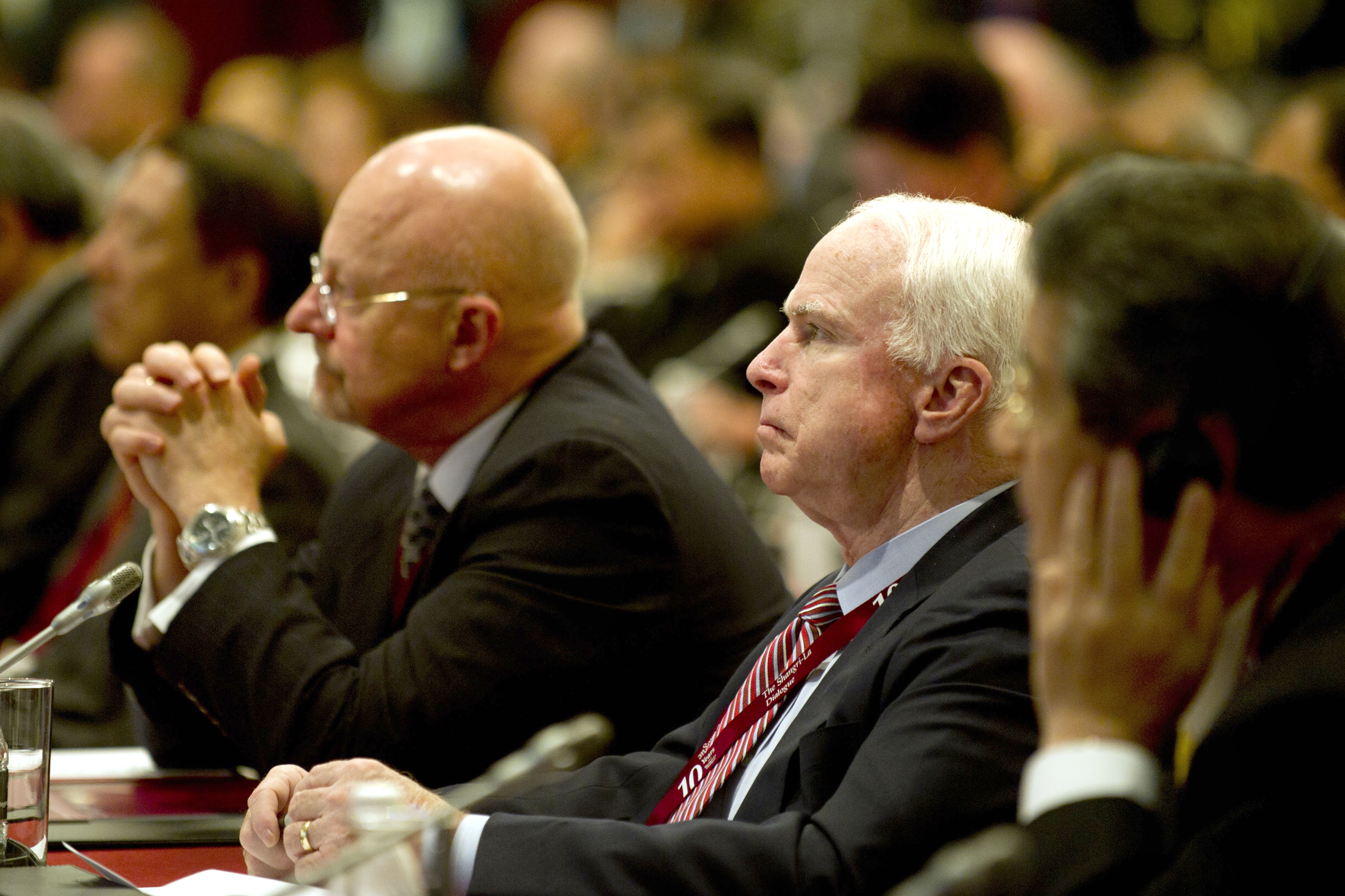 U.S. Sen. John McCain of Arizona, center, and Director of National Intelligence James R. Clapper Jr., left, listen as U.S. Defense Secretary Robert M. Gates addresses the audience during the Shangri-La Dialogue security summit at the Shangri-La Hotel in Singapore, June 4, 2011.